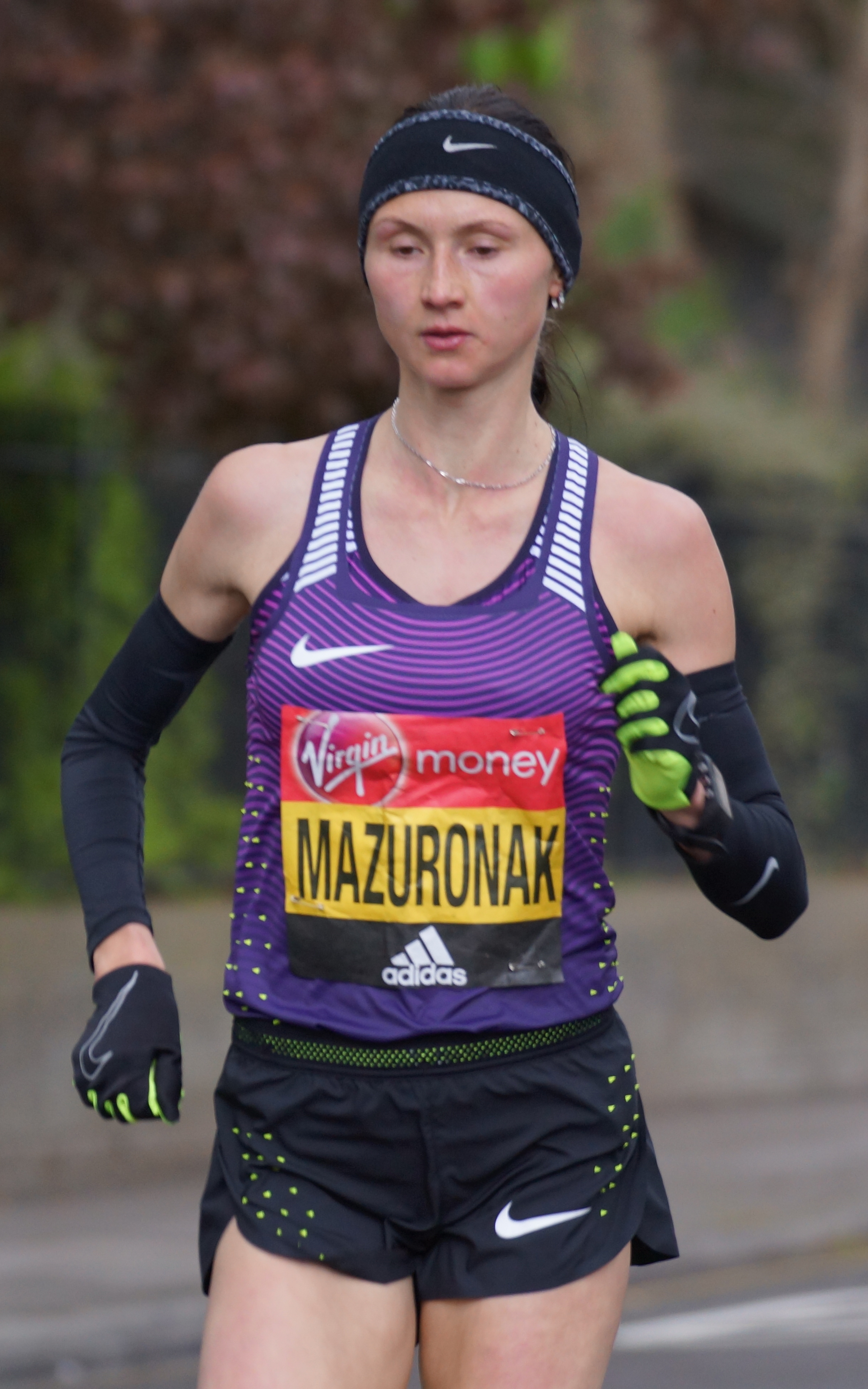 Volha Mazuronak. Photograph taken by Julian Mason on 24th April 2016 during the London Marathon. Location Westferry Road on the Isle of Dogs close to Arnhem Place and just before Millwall Outer Dock.